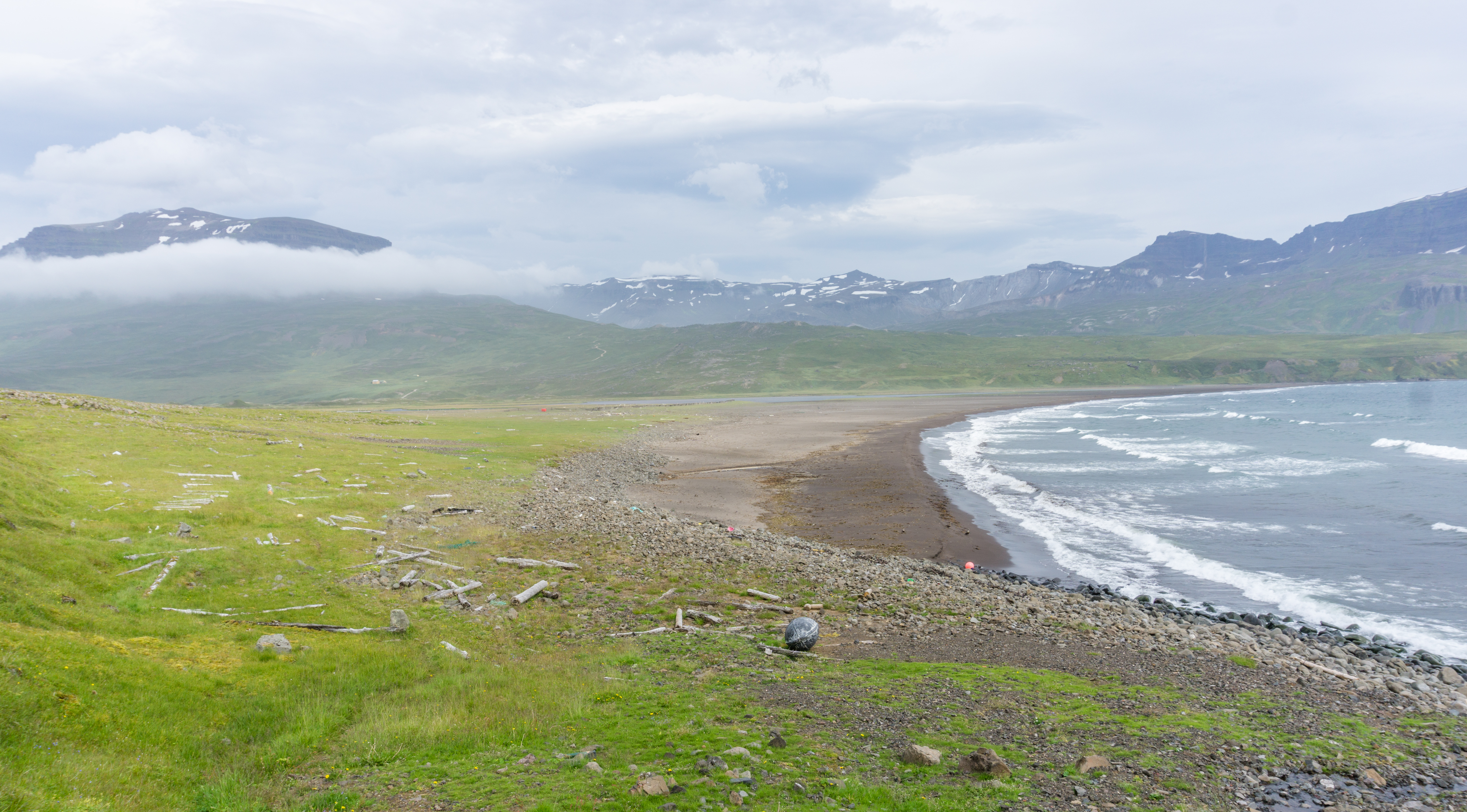 Loðmundarfjörður. Taken from Víknaslóðir Trail in Eastern fjords, Eastern Region, Iceland